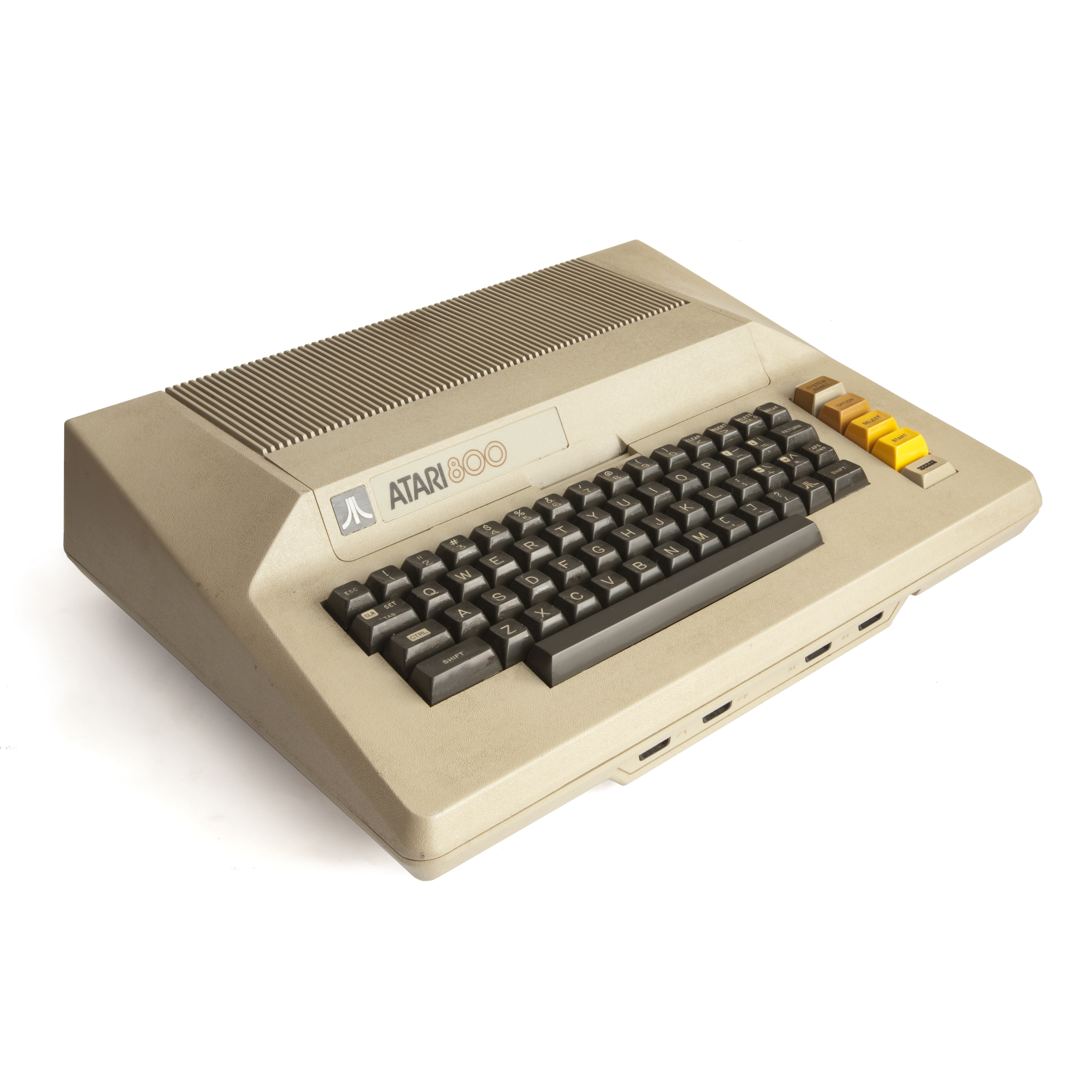 Atari 800 8-bit home computer.